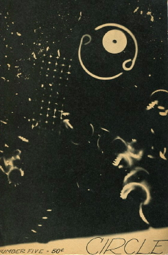 Cover of 5th issue of Circle Magazine, 1945